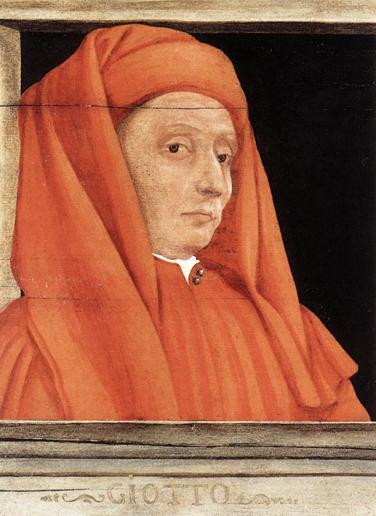 Portraits of Giotto, Paolo Uccello, Donatello, Antonio Manetti et Filippo Brunelleschi